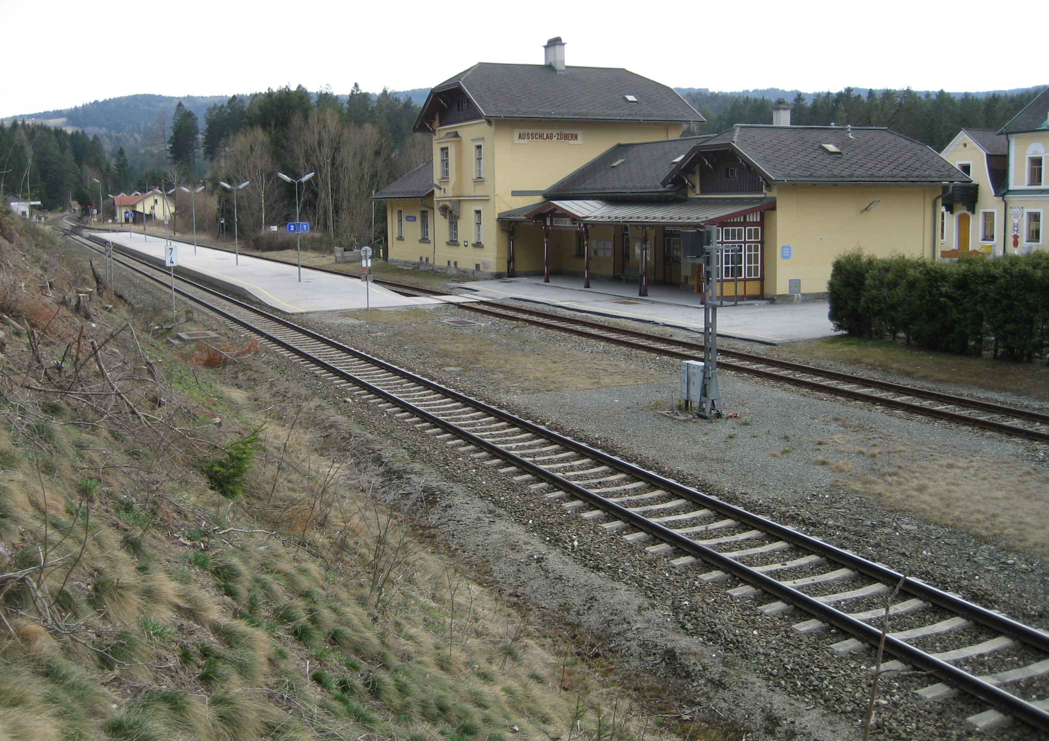 train station Ausschlag-Zöbern in Lower Austria